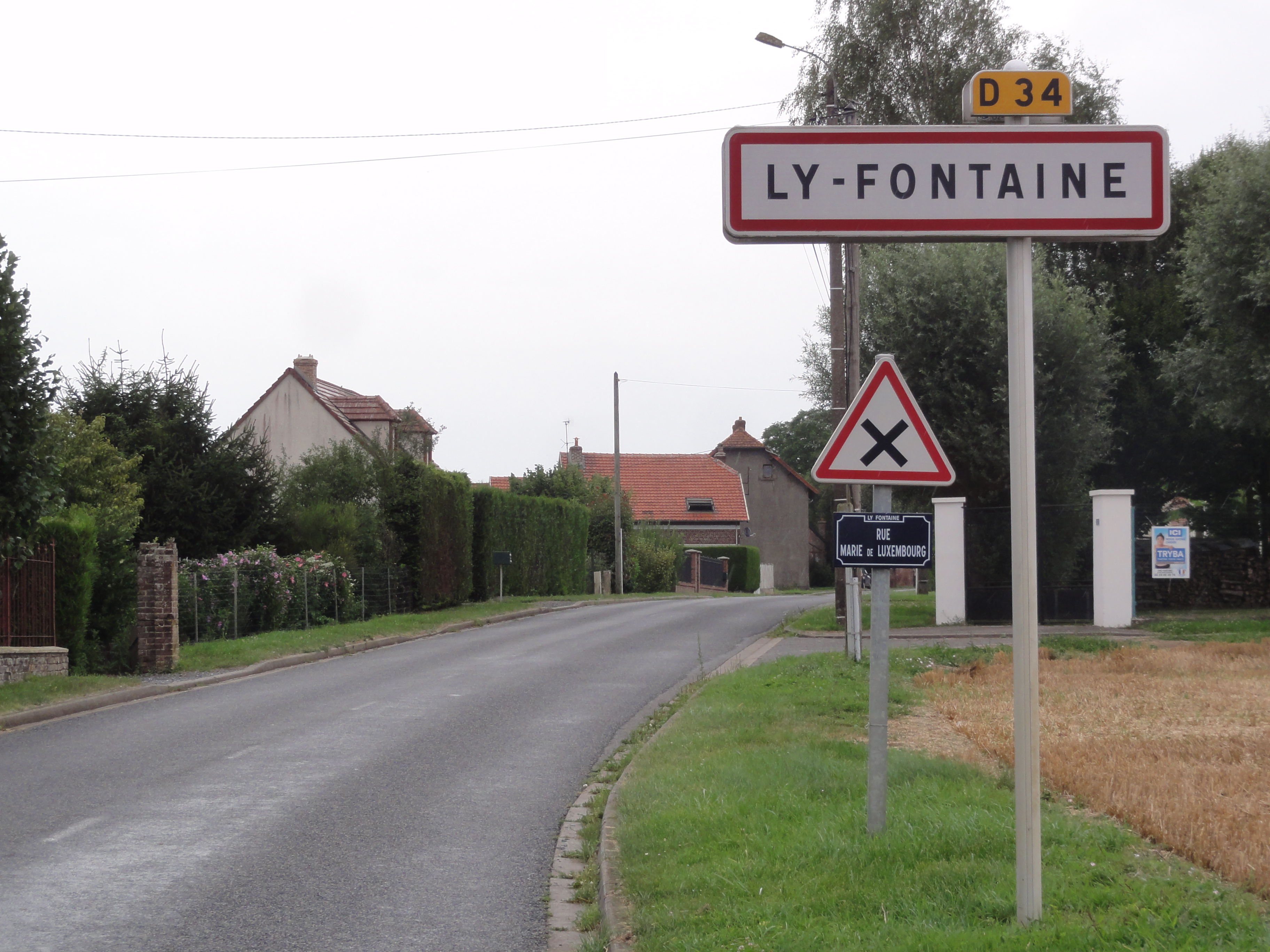 Ly-Fontaine (Aisne) city limit sign